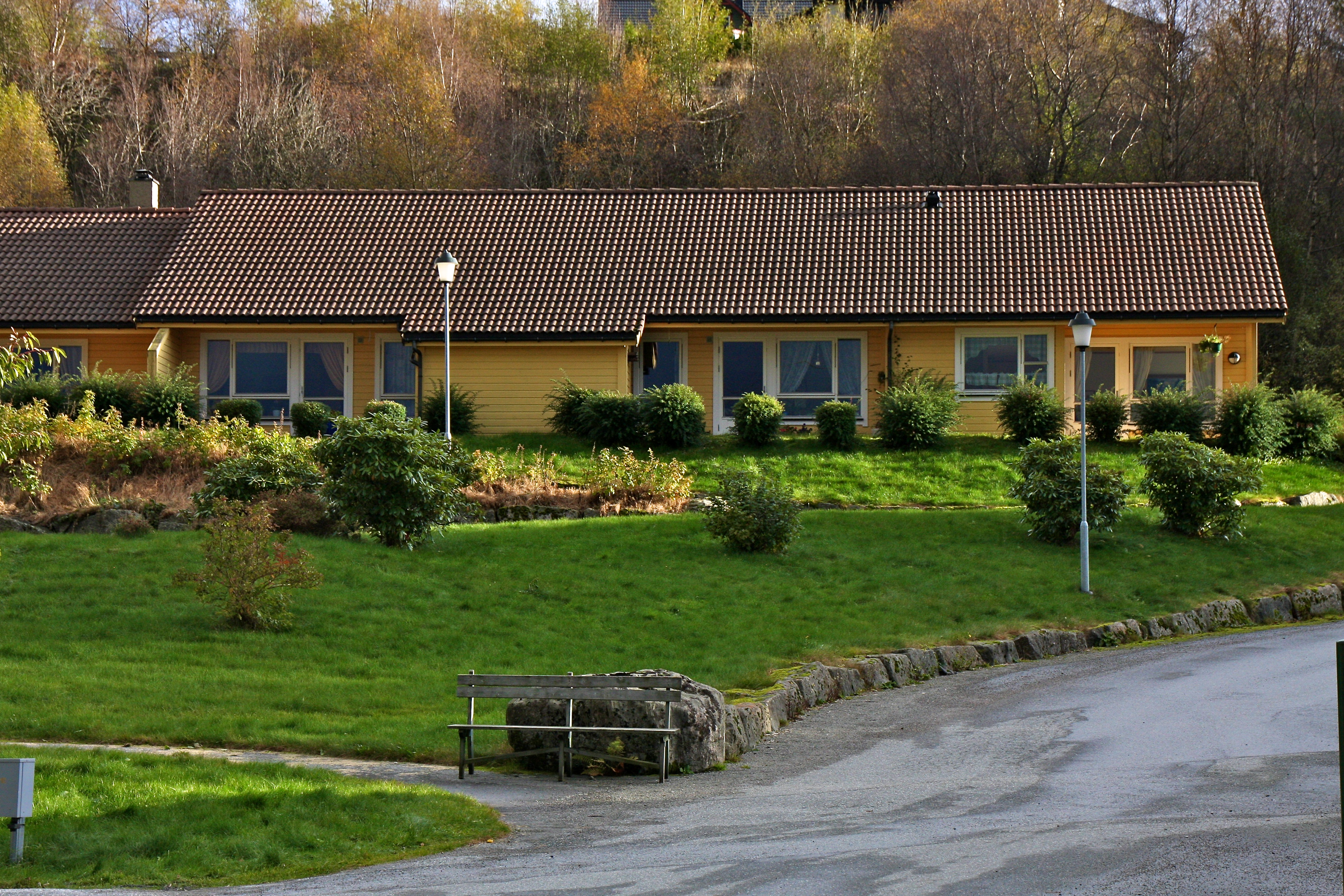 Gulen municipality, Norway.